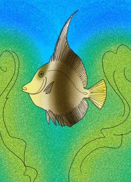 Reconstruction of Eozanclus brevirostris, a primitive relative of the Moorish Idol from the Eocene lagerstatte, Monte Bolca